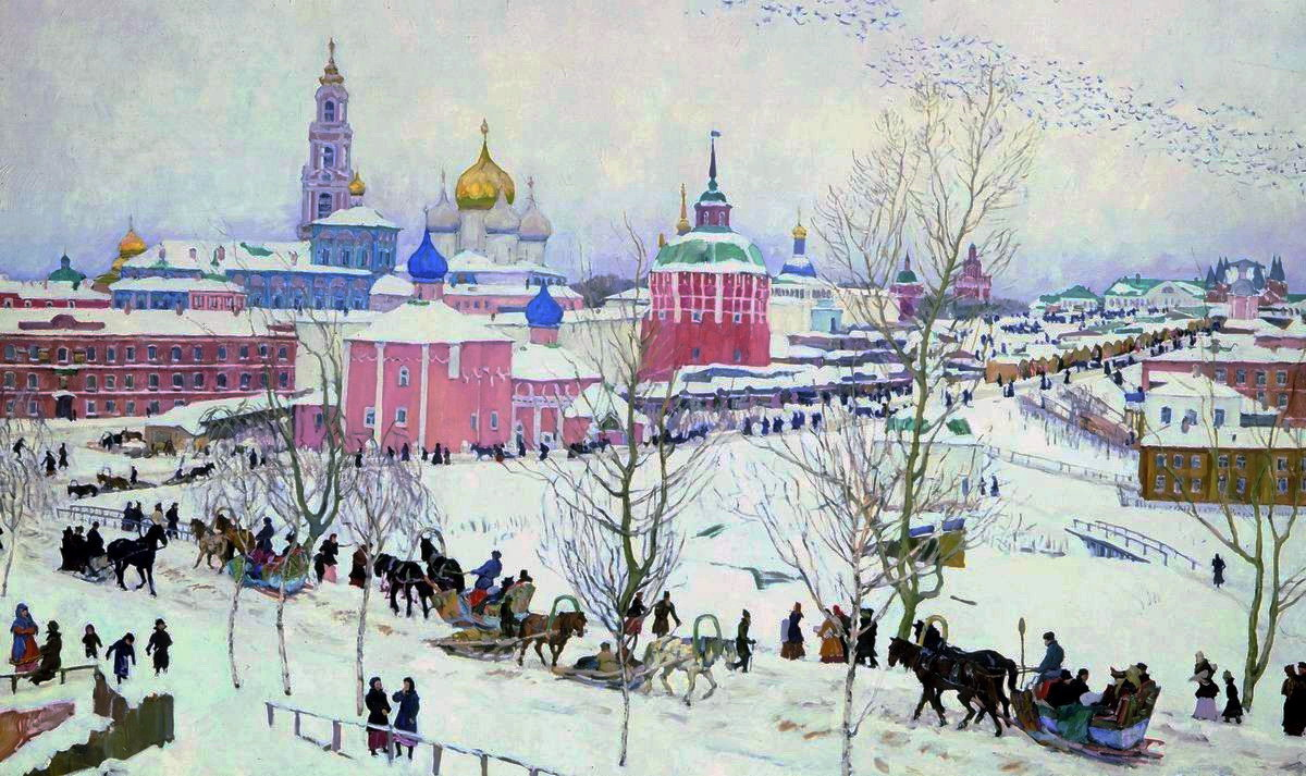 Troitse-Sergiyeva Lavra in Winter. View from Vokzalnaya Street